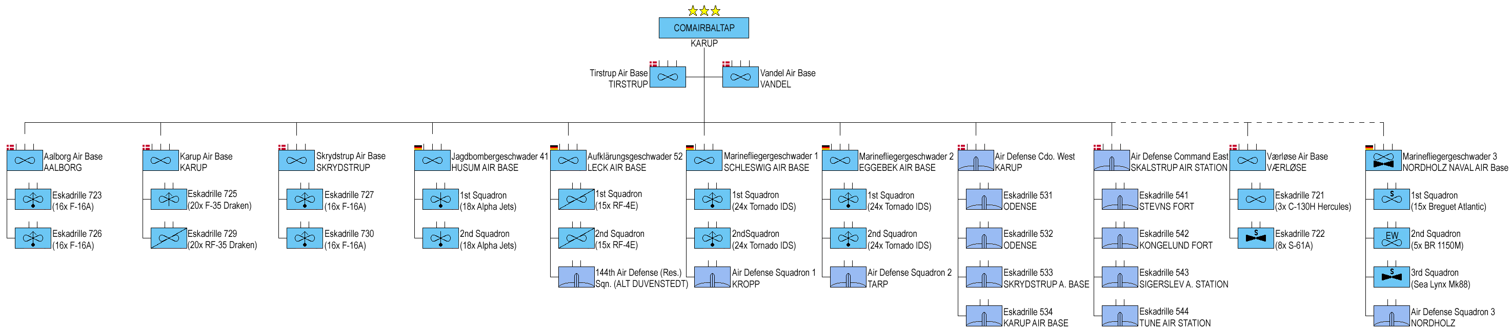 Structure of NATO's Air Forces Baltic Approaches in 1989